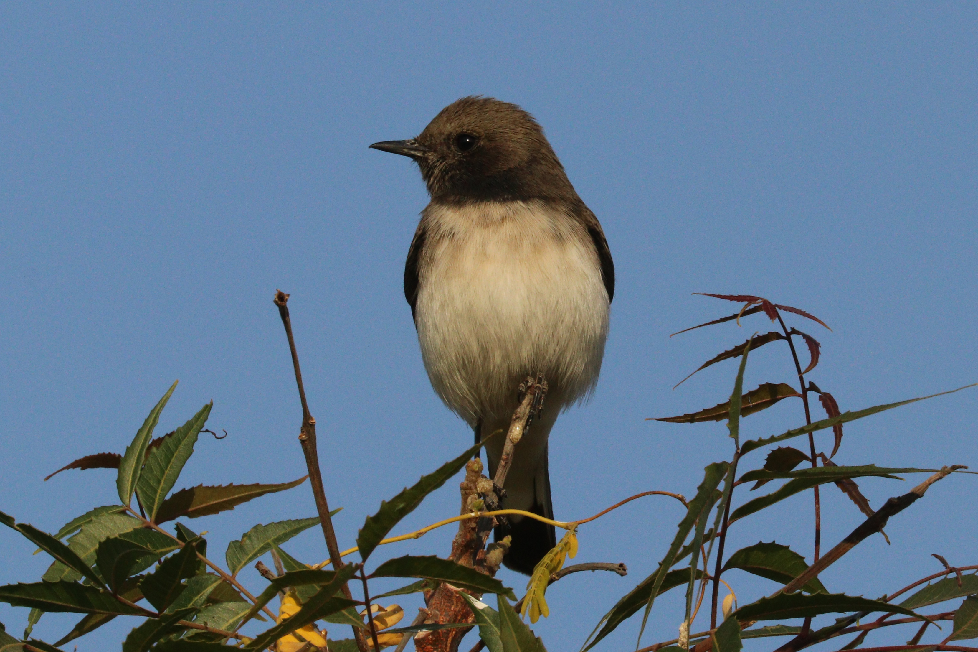 Variable wheatear (Oenanthe picata picata) male, Jawai, Rajasthan, India